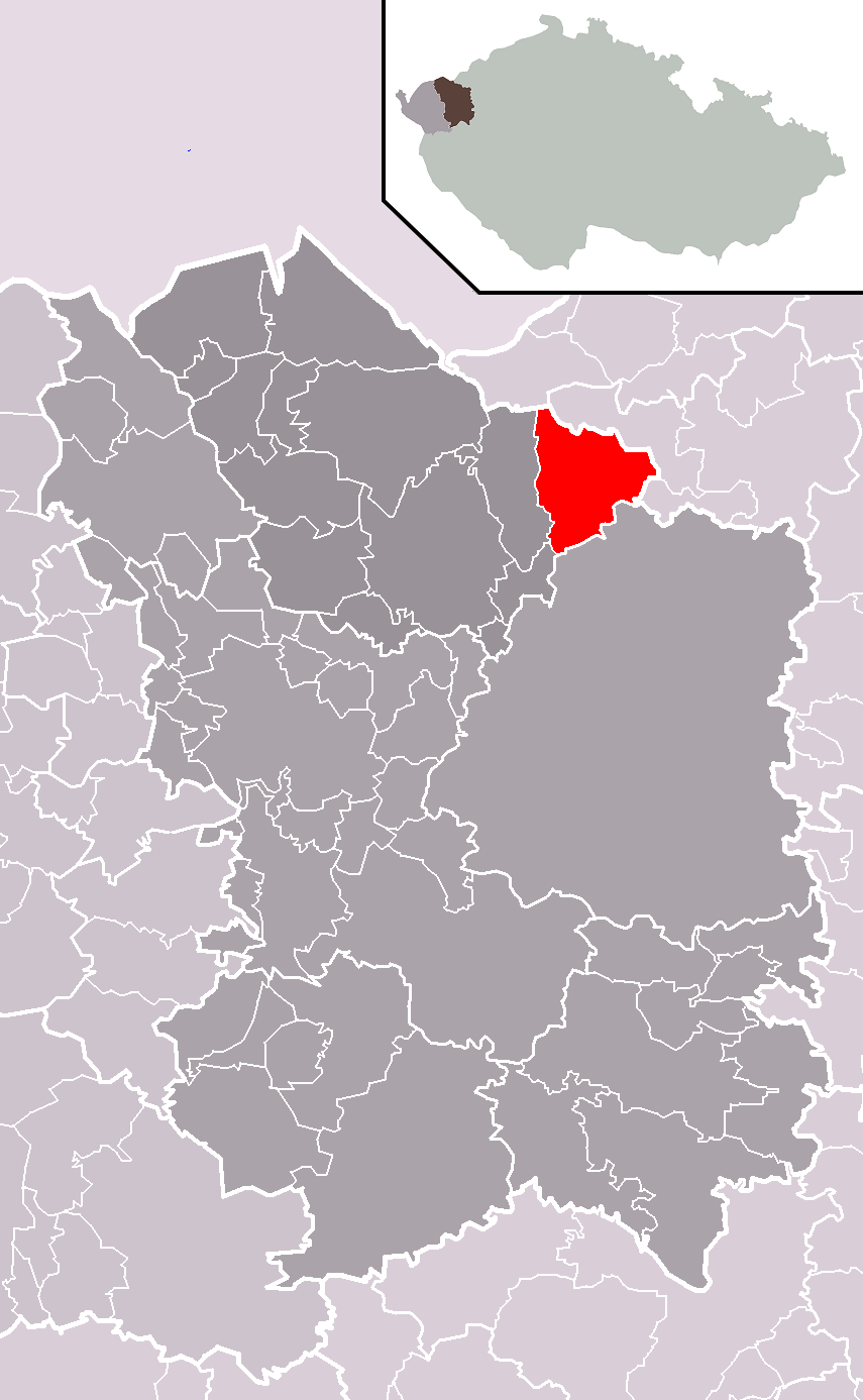 Location of Stráž nad Ohří municipality within Karlovy Vary District and administrative area of Ostrov as a Municipality with Extended Competence.